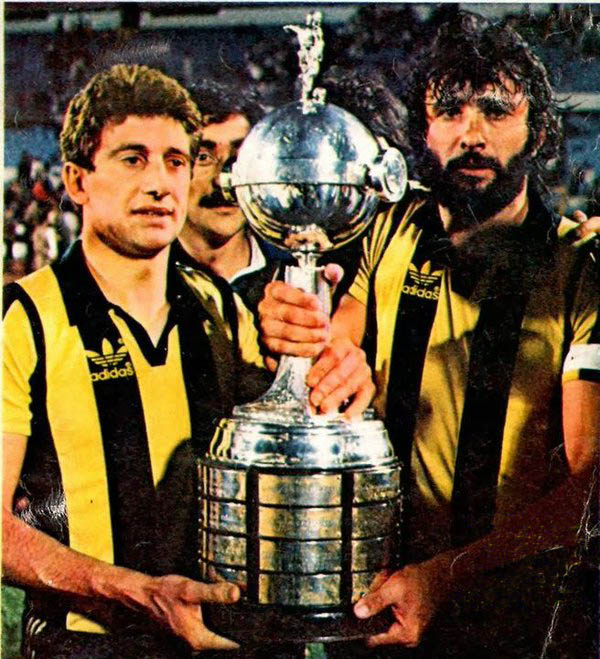 Fernando Morena (left) and Walter Olivera holding the Copa Libertadores trophy won by Peñarol.